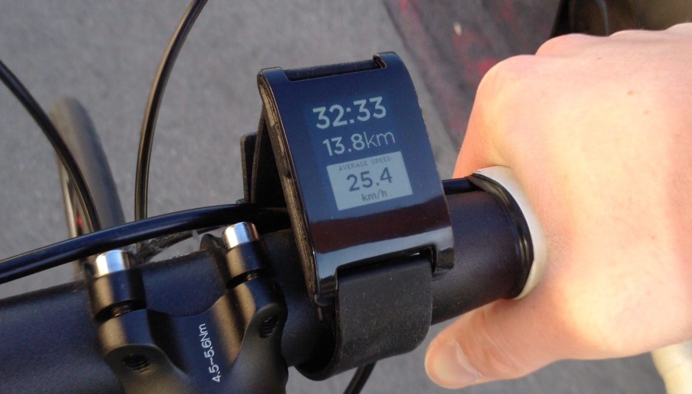 Pebble E-Paper Watch displaying bicycling speed and distance, as well as time.